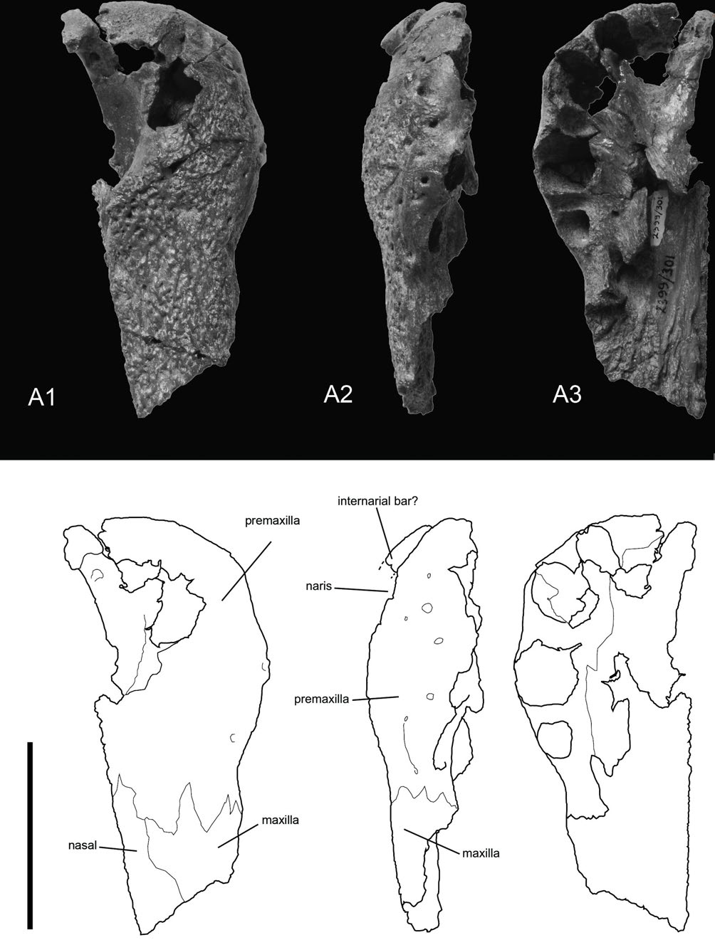 Kansajsuchus extensus holotype, PIN 2399‒301. Right premaxilla of an adult crocodilian in dorsal, lateral and ventral aspects. Scale bar is 5 cm.